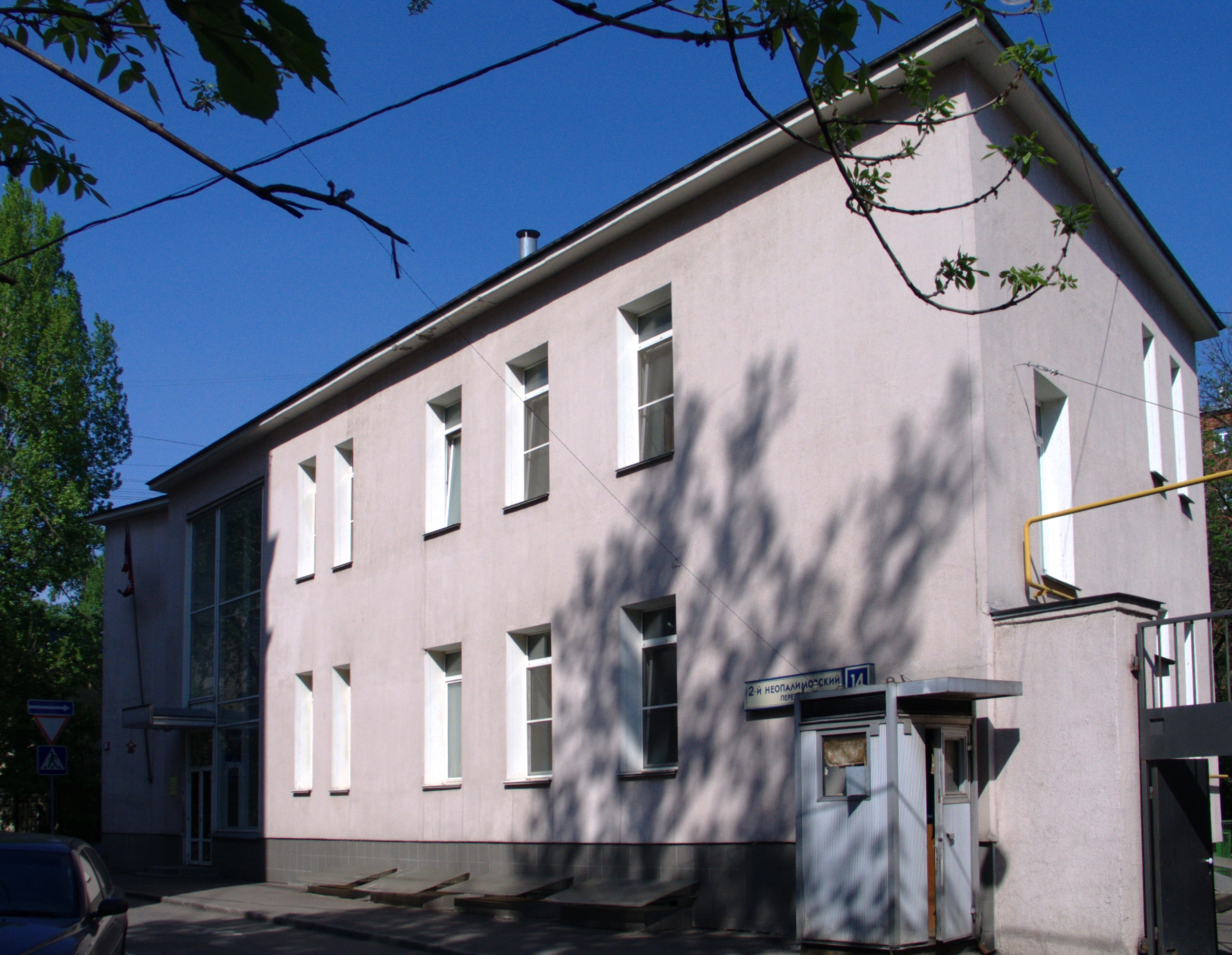 Building of the Embassy of Nepal in Moscow (Second Neopalimovskiy side-street 14/7).